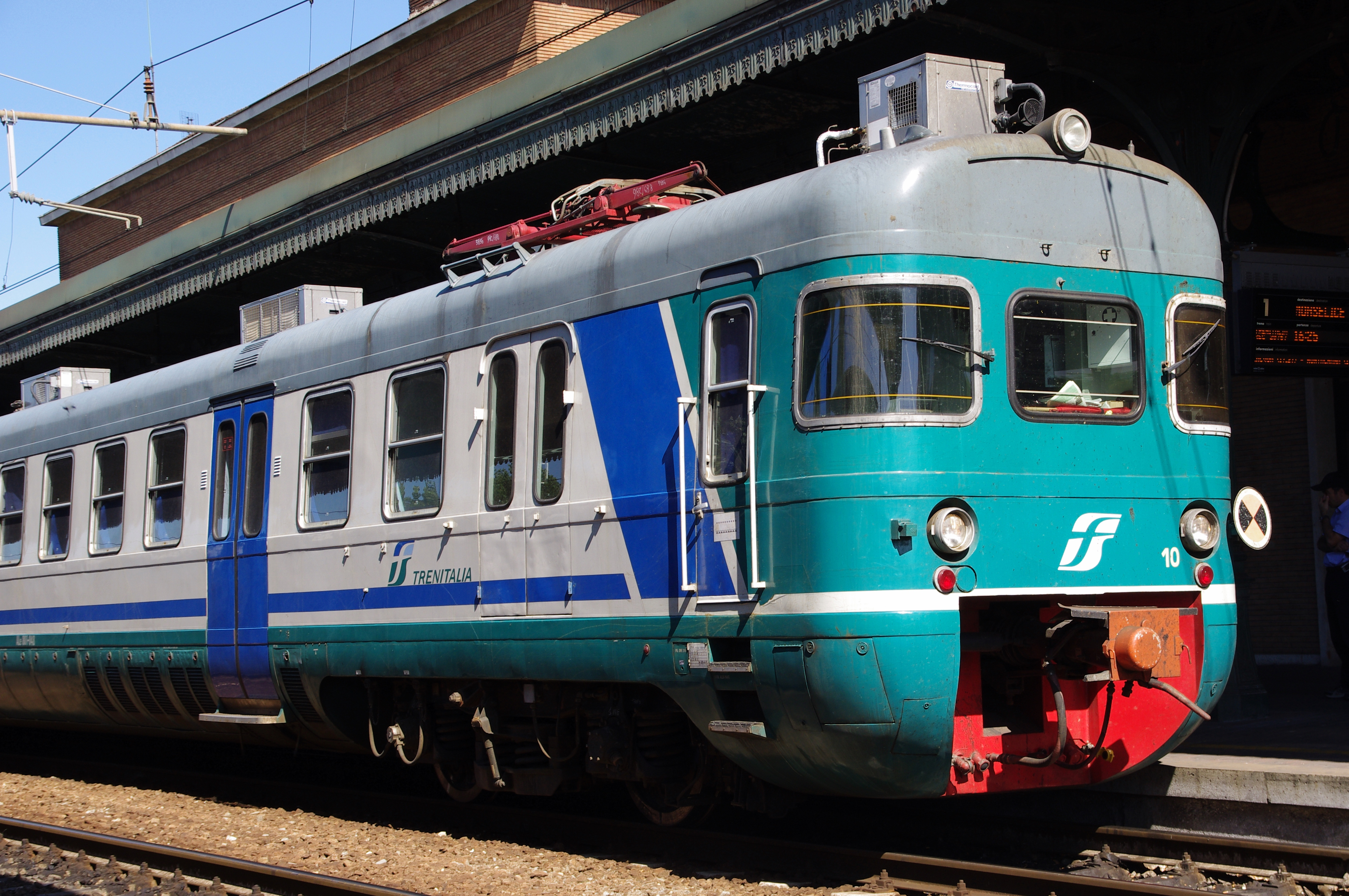 An FS ALe940 series electric multiple unit in Mantua, Italy